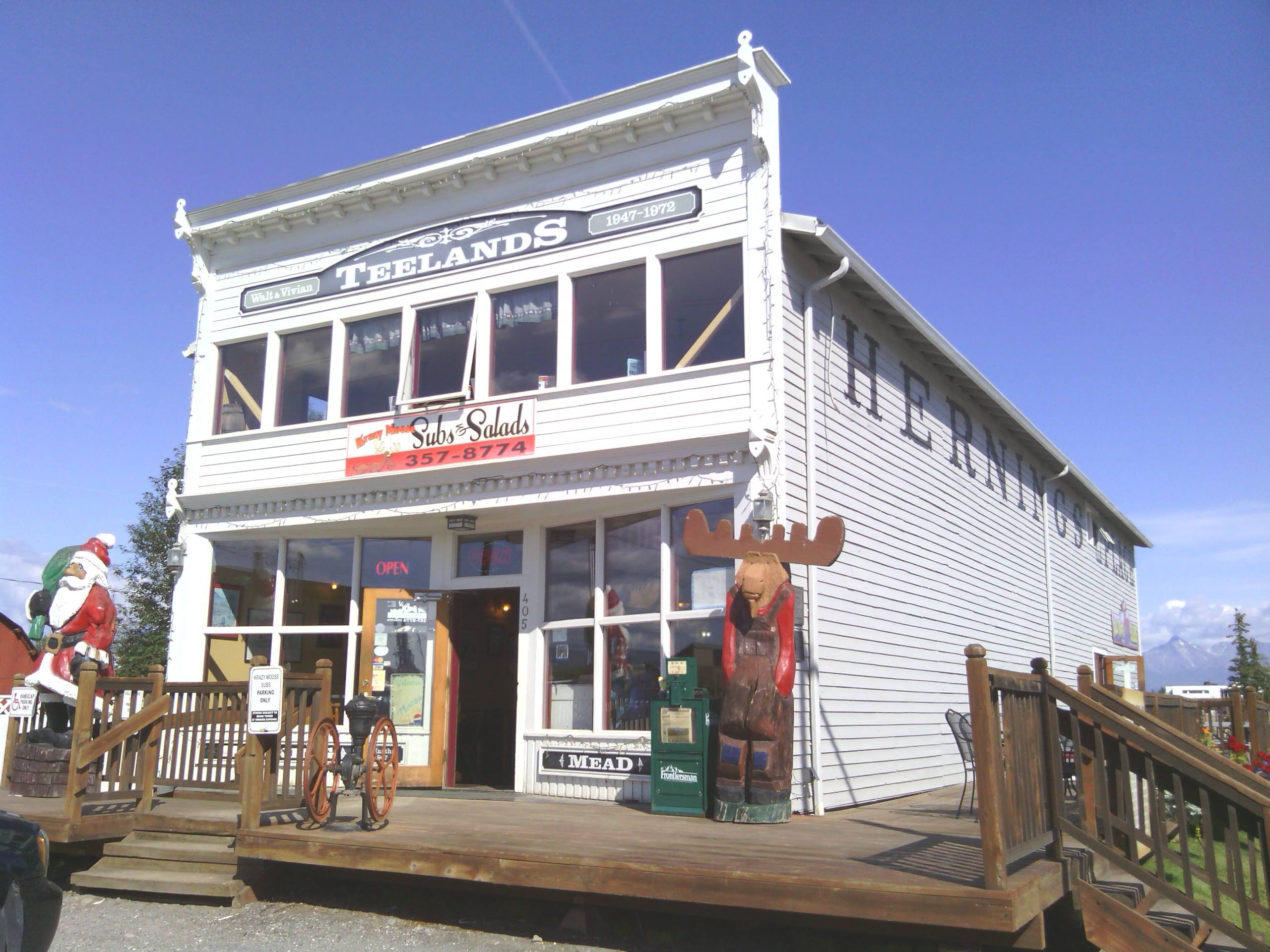 Teeland's Country Store